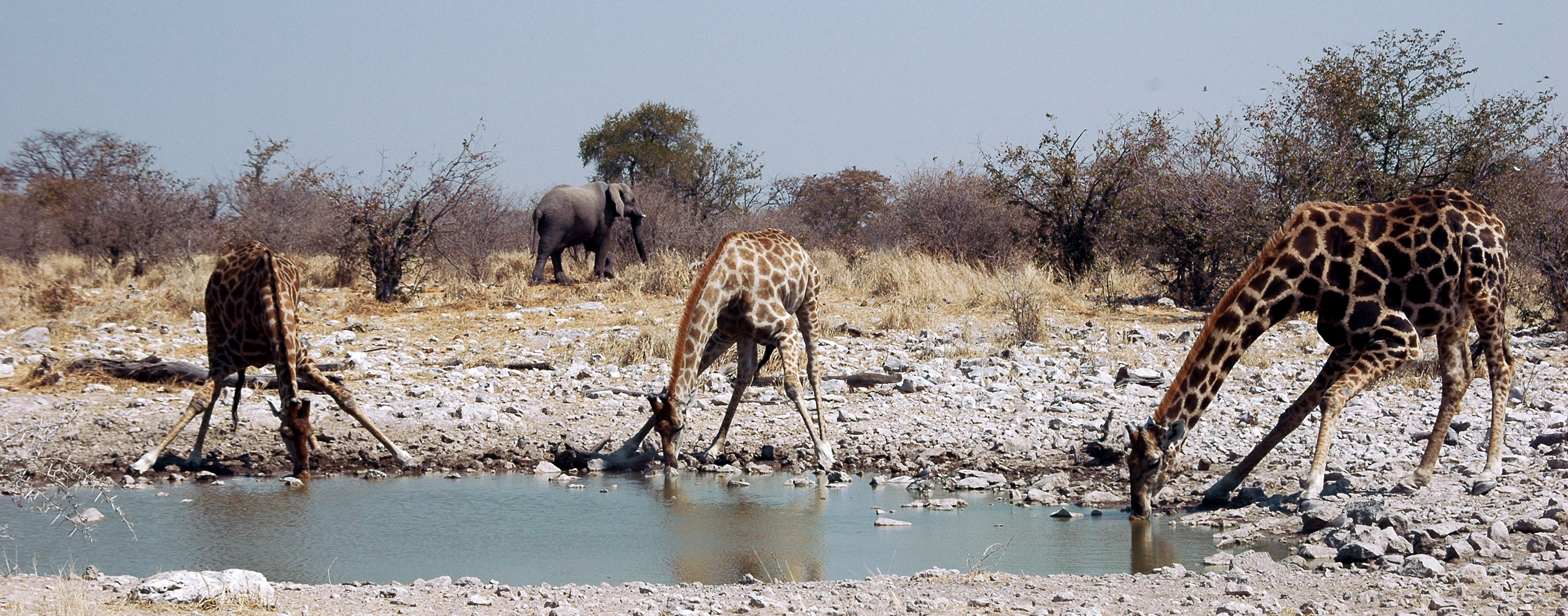 Namibie Etosha National Park Girafes Photographie prise par GIRAUD Patrick